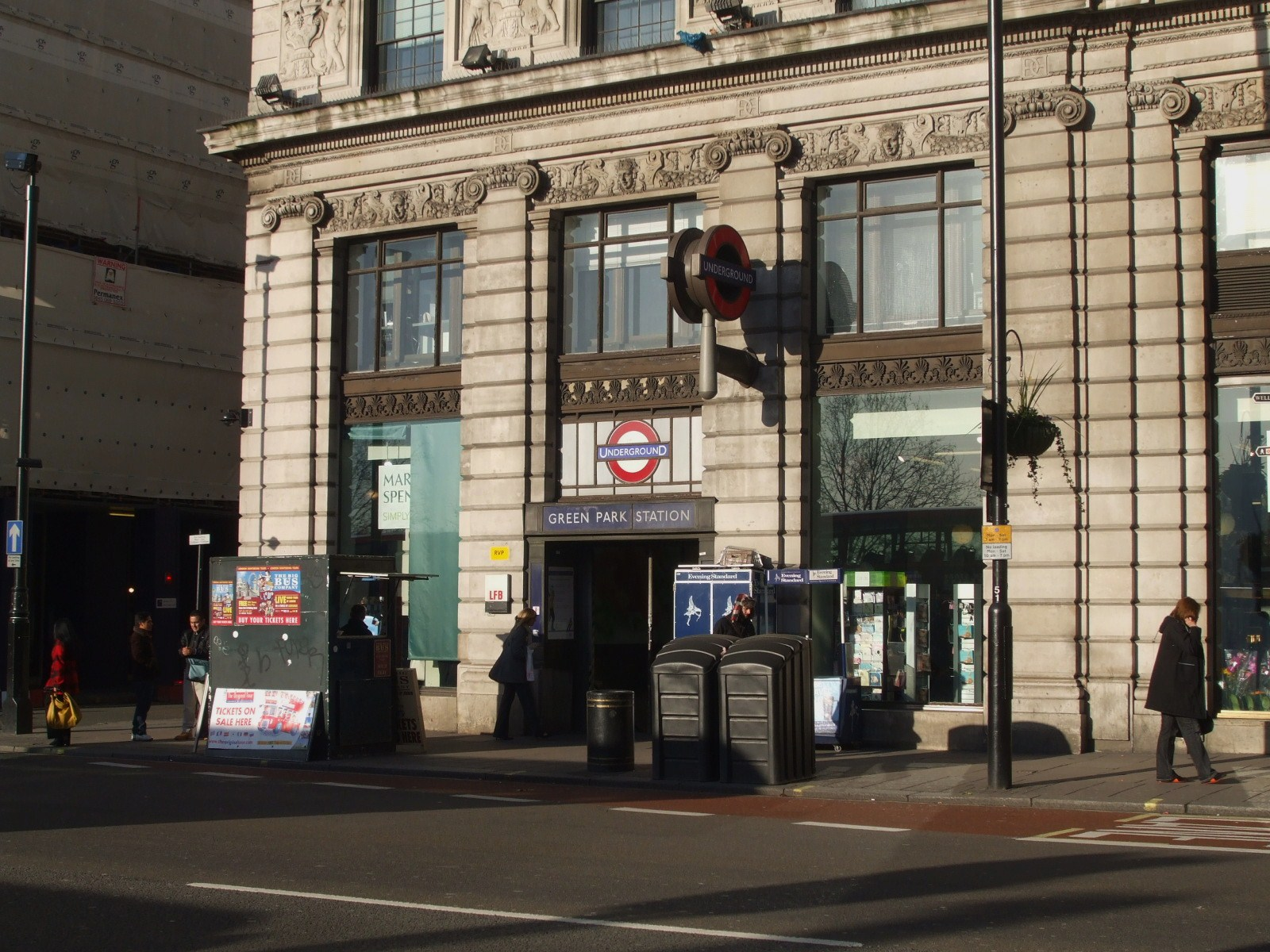 Green Park tube station building on the northern side of Piccadilly